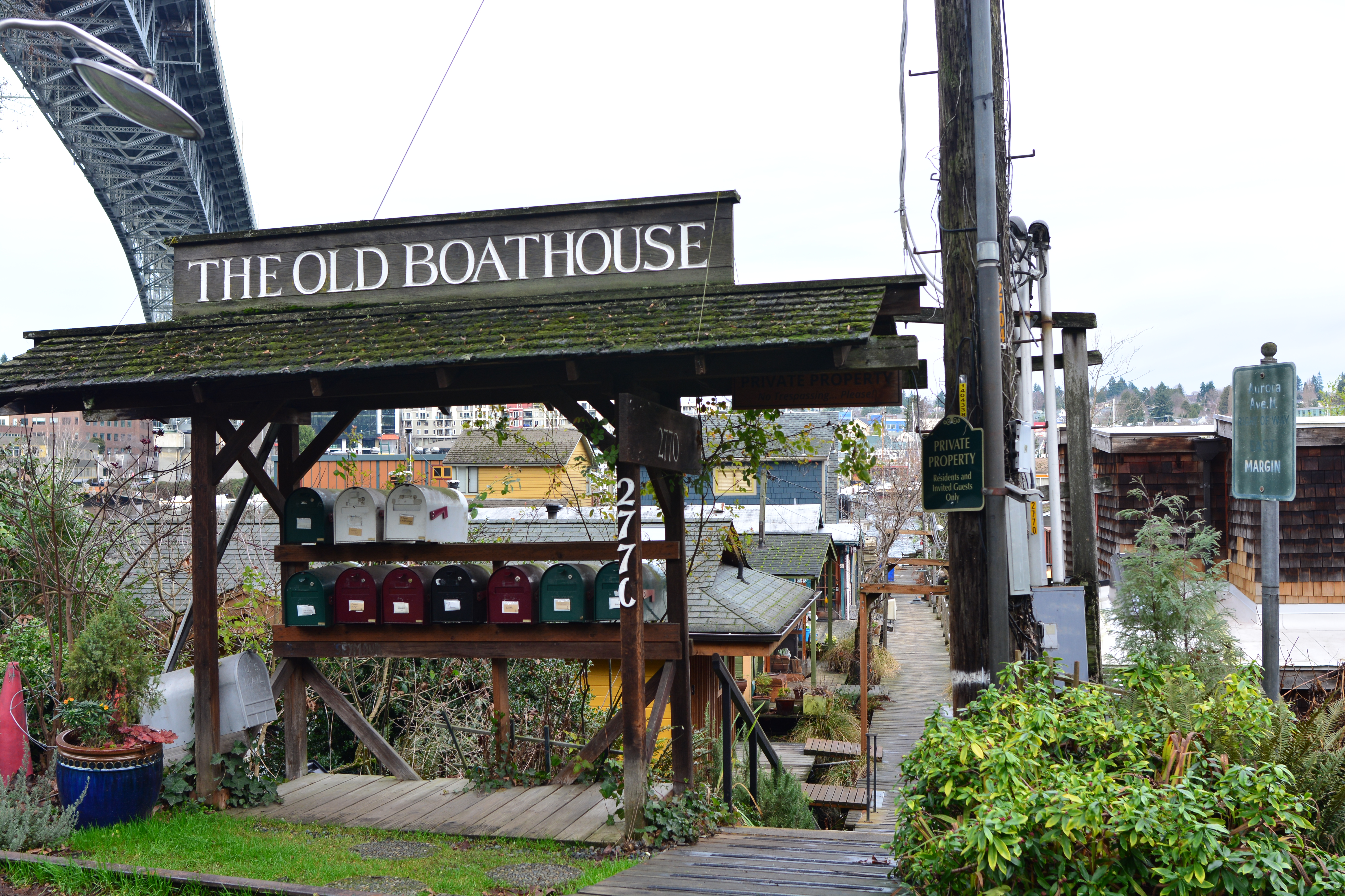 Mailboxes for floating homes at dock called The Old Boathouse and sign for the dock, just east of south end of the Aurora Bridge (George Washington Memorial Bridge), Seattle, Washington. (Floating homes and shanties on pilings, houseboat community at the north end of the bridge.)